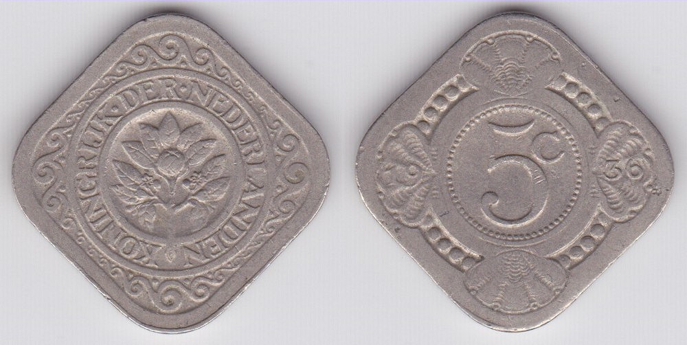 Netherlands 1936, 5 Cent, copper-nickel, square